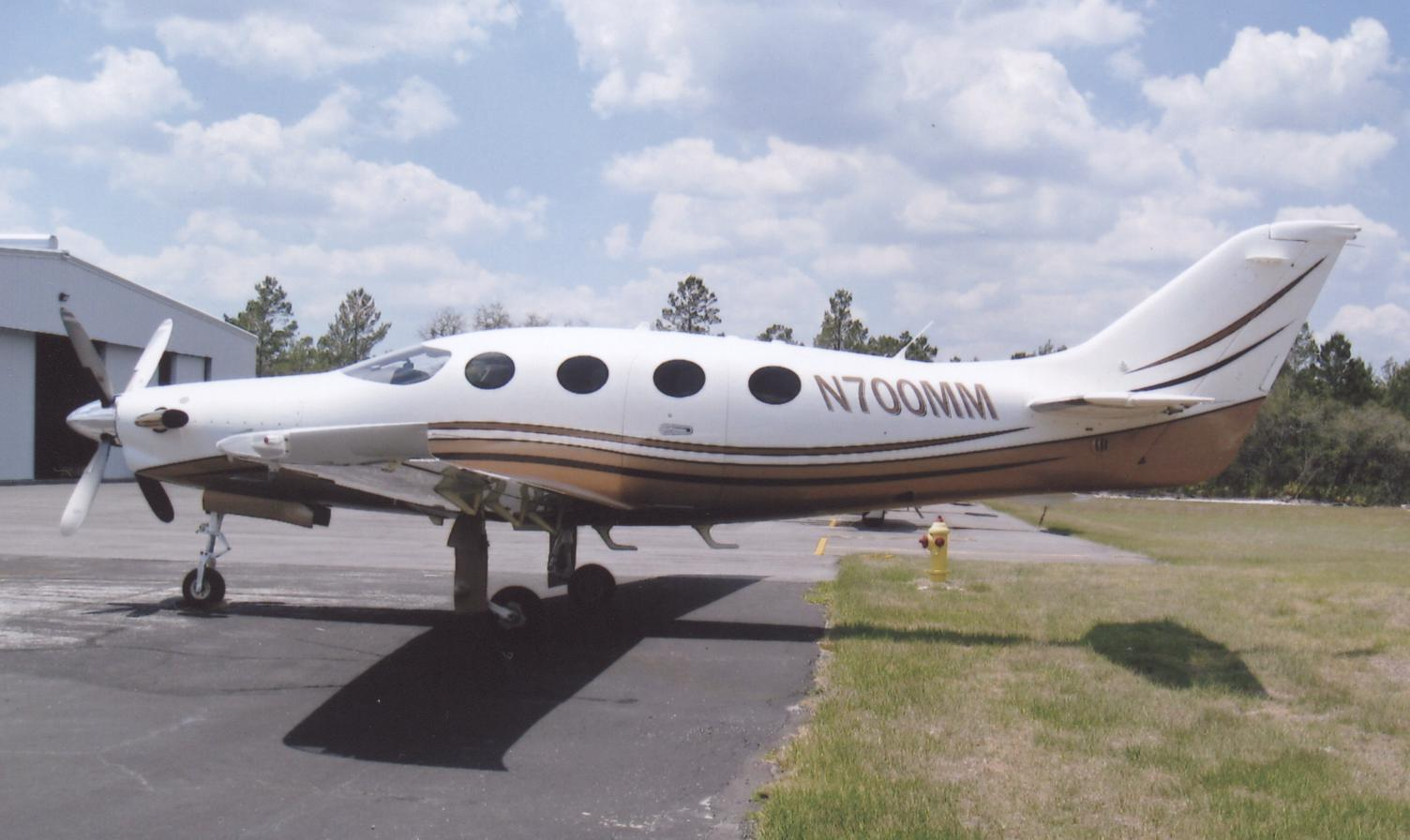 Epic LT aircraft N700MM at Plant City airport Florida